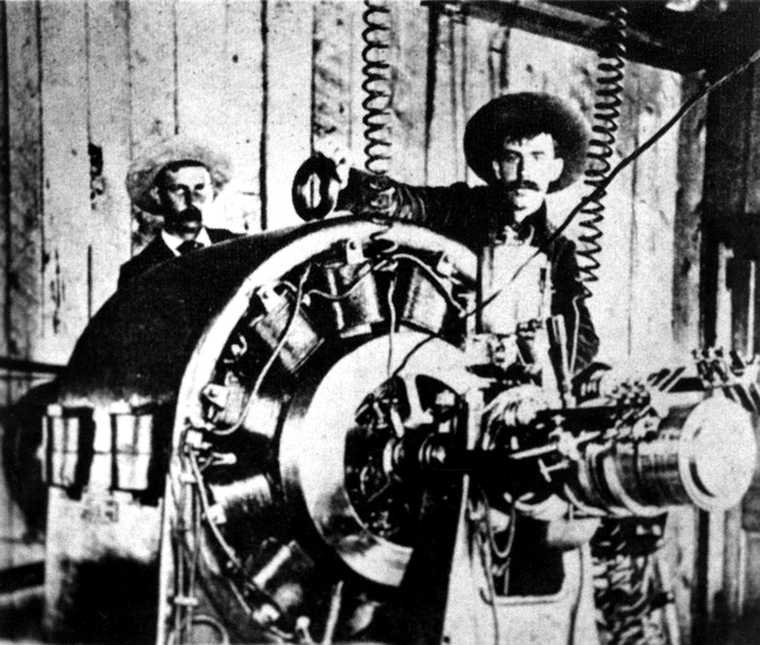 Workers pose in 1891 with 100-hp Westinghouse synchronous alternator at the Ames power plant located near Ophir, Colorado. At the time it was the largest alternator Westinghouse made. It was used as a generator, connected by belt drive to a six-foot Pelton water wheel driven by water from water from the San Miguel River. It produced 3000 volt, 133 Hertz, single phase alternating current to drive a similar alternator connected by copper power line s 2.6 miles (4.2 km) that acted as a motor to drive a stamp mill at the Gold King Mine. It replaced an existing steam mill that was difficult to run because of a lack of timber to use as fuel.